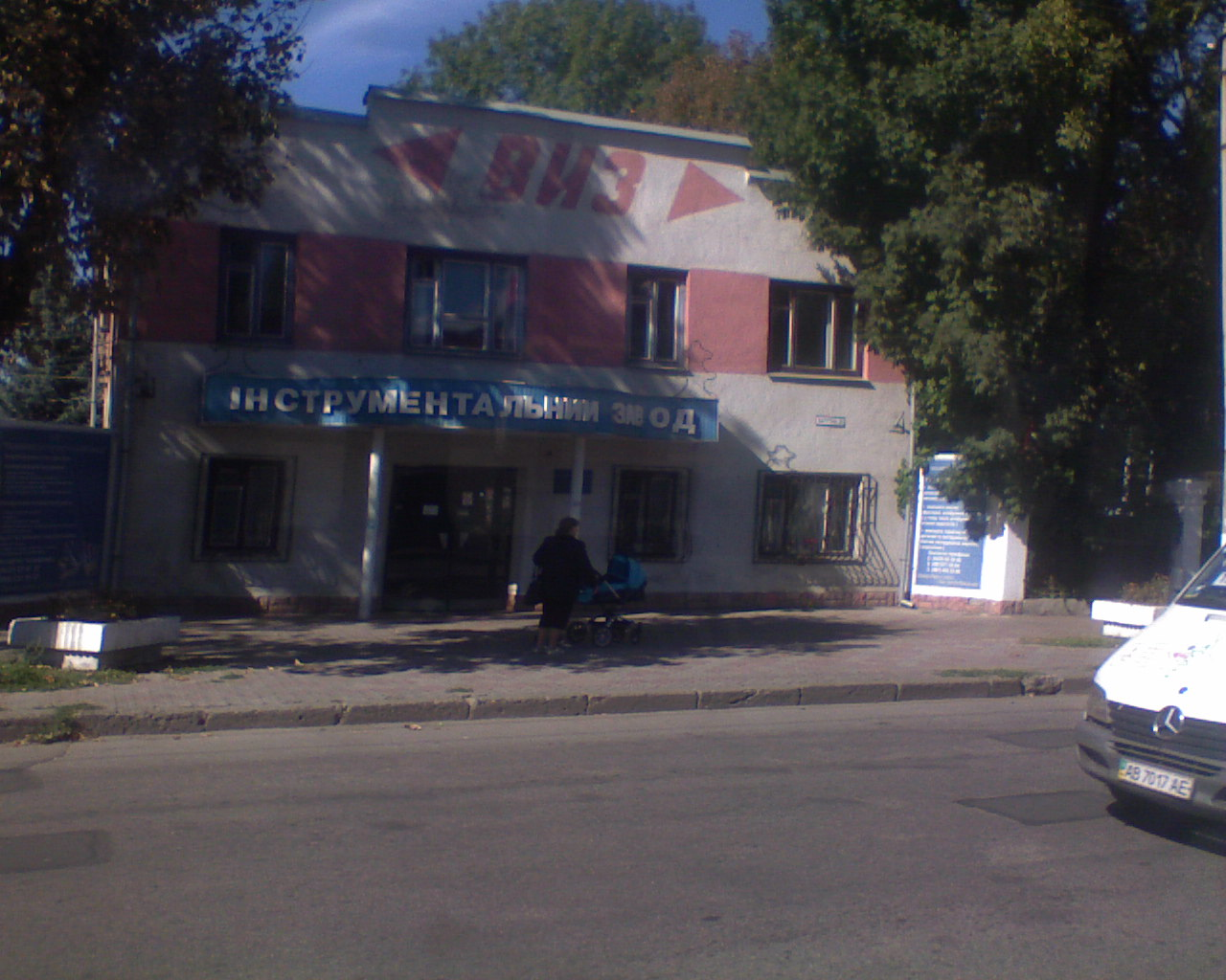 Тool Factory in Vinnytsia